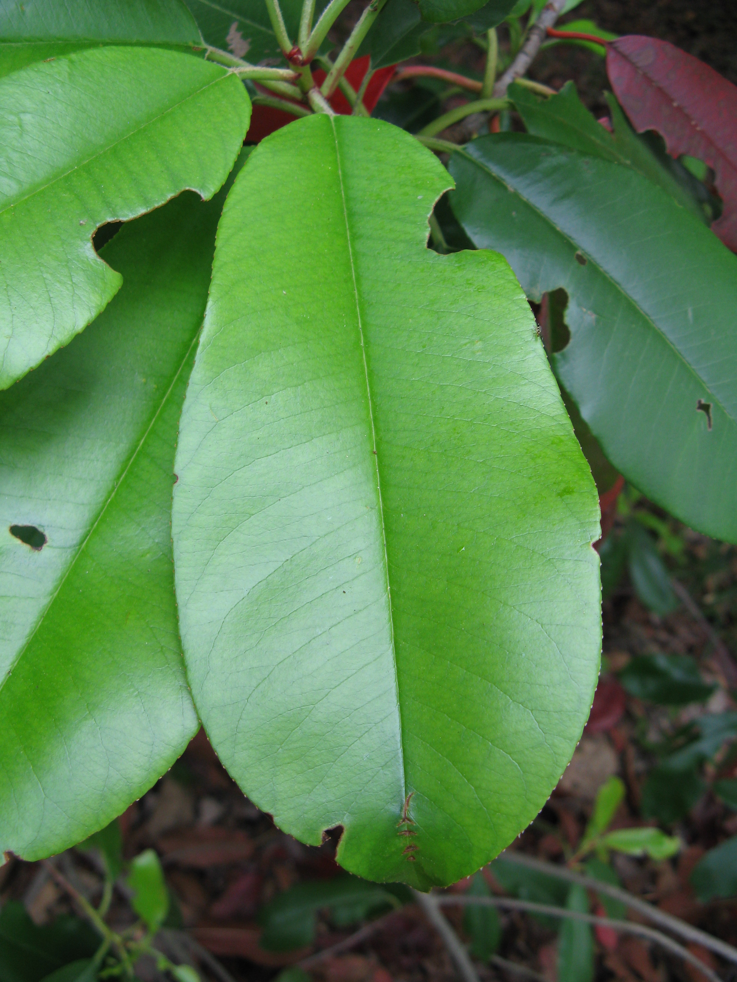 Photinia serratifolia